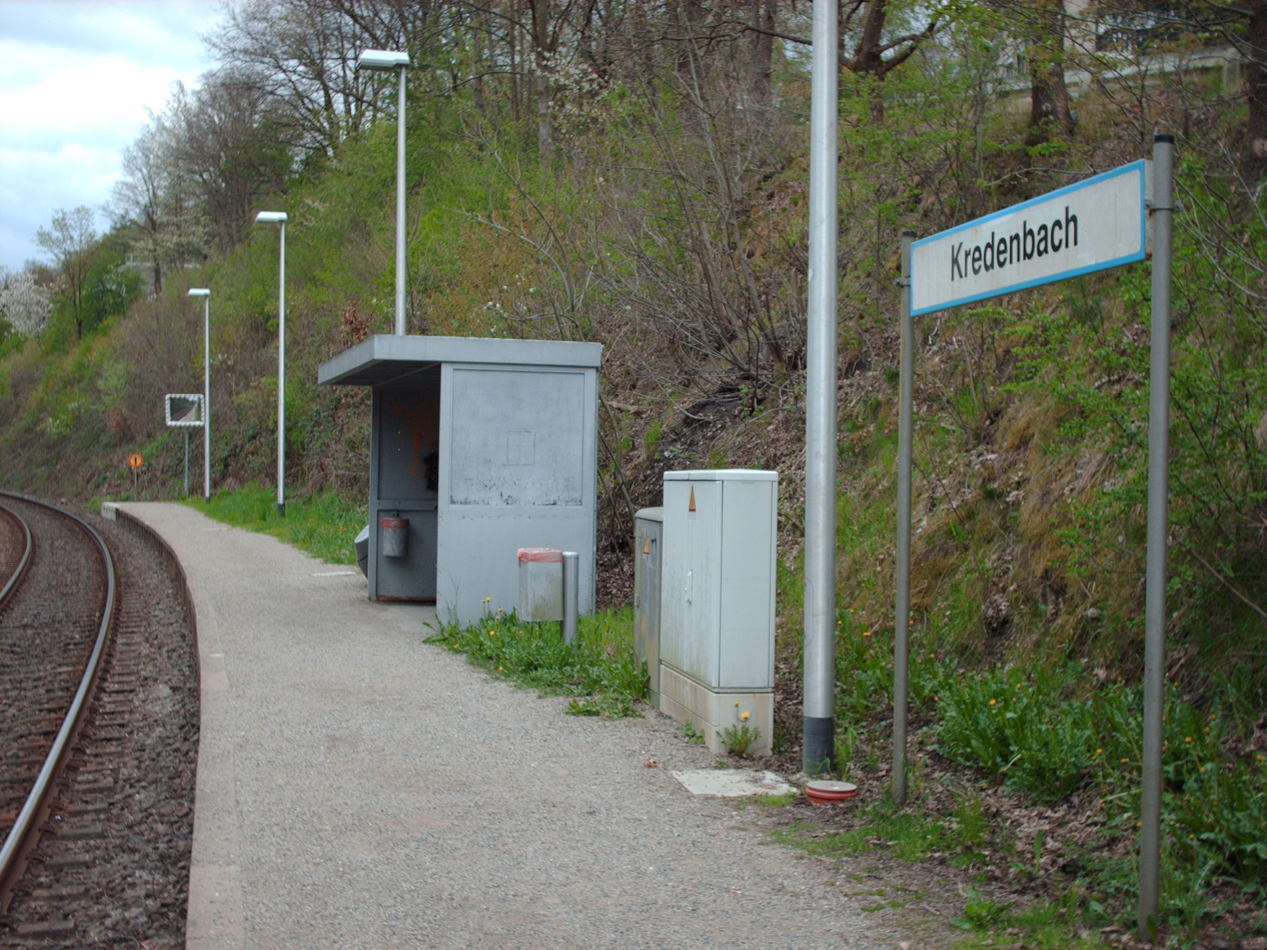 Kredenbach station, Kreuztal, Germany check usage